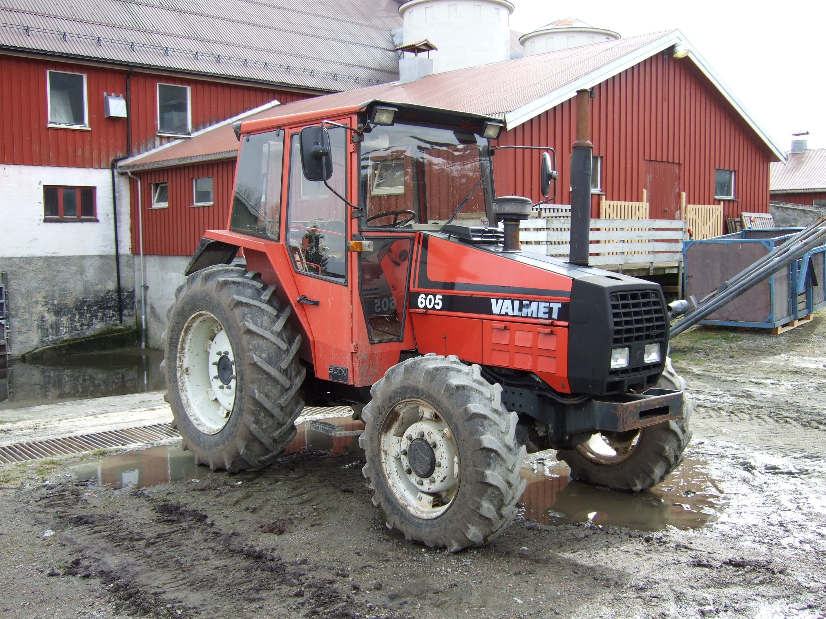 Valmet 605 tractor